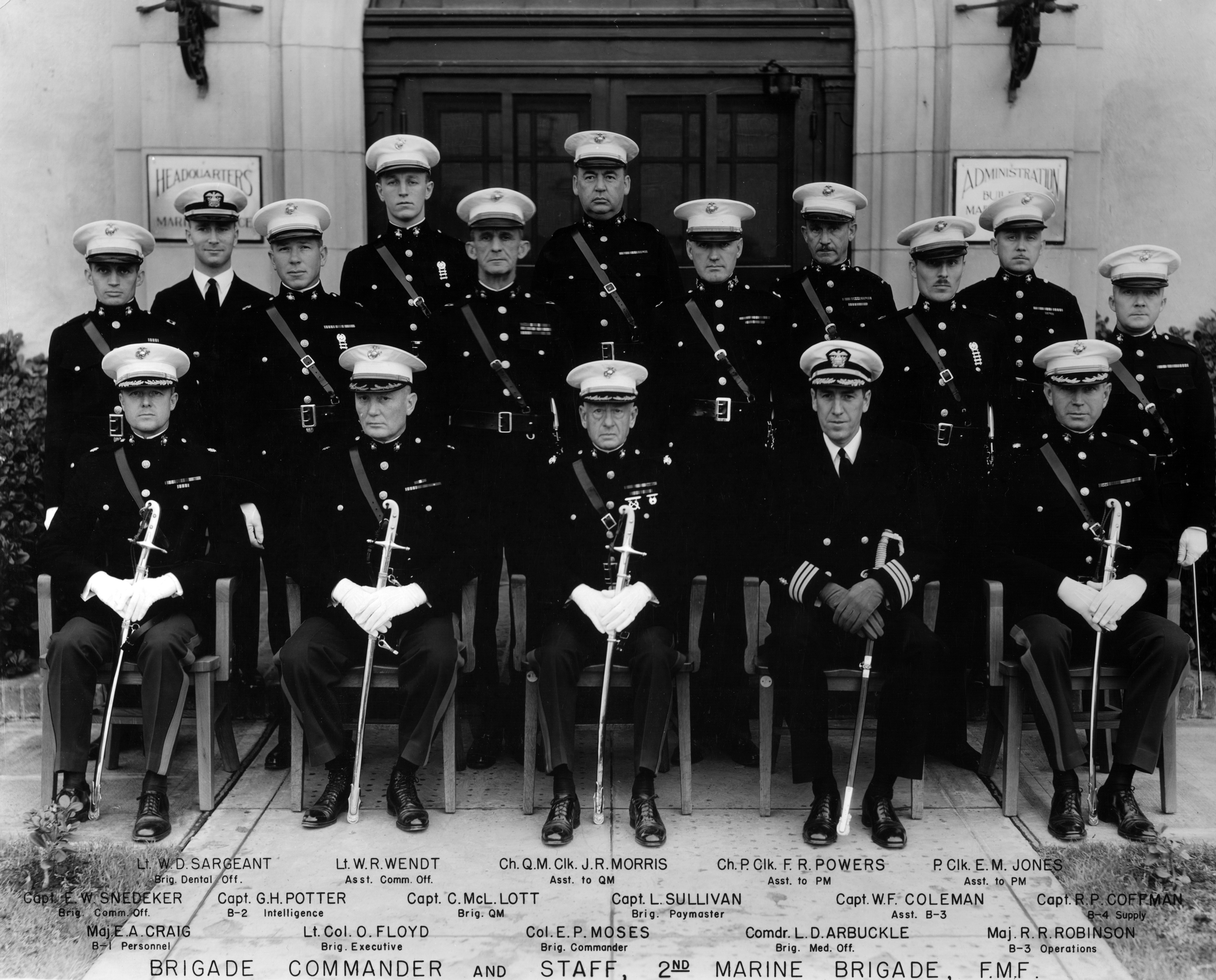 Emile Phillips Moses (May 27, 1880 - December 22, 1965) was a distinguished officer in the United States Marine Corps with the rank of Major General. A veteran of forty years of service and several expeditionary campaigns, Moses is most noted for his service as Commanding general, Marine Corps Recruit Depot Parris Island during World War II and for his efforts in the developing of Marine Corps Amphibious Warfare doctrine, especialy Landing Vehicle Tracked.